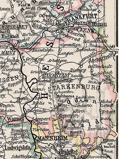 Detail from a map of Starkenburg.